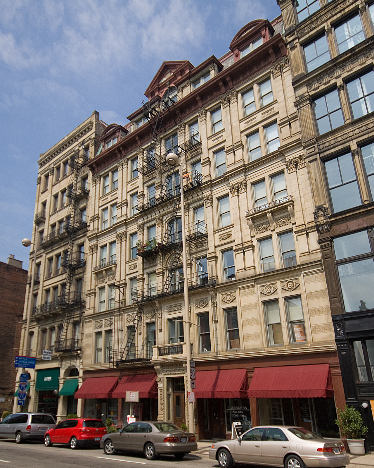 Lombardy Apartment Building in Cincinnati. Taken by Greg Hume.